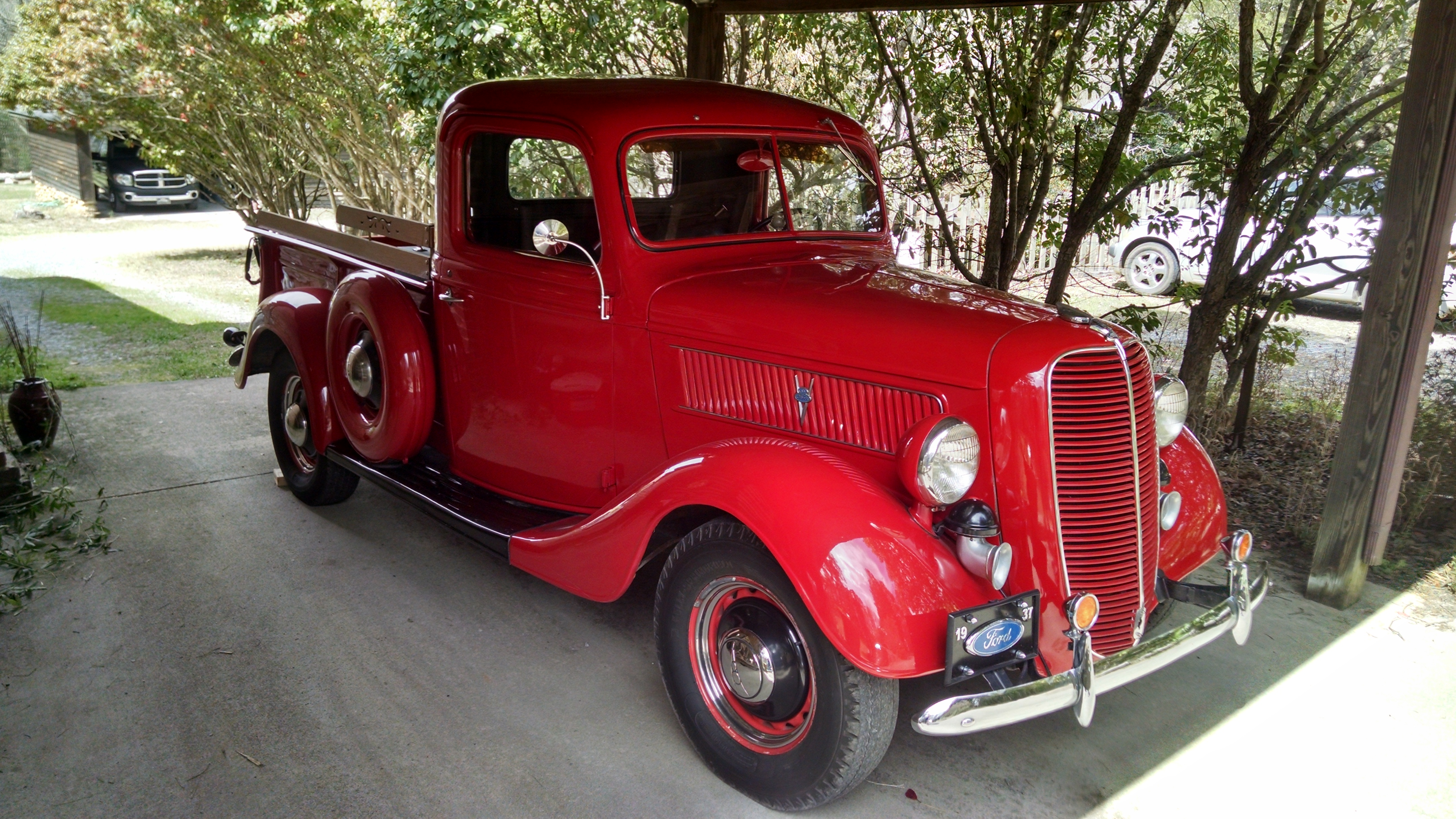 1937 Ford Truck found in Jugtown, North Carolina